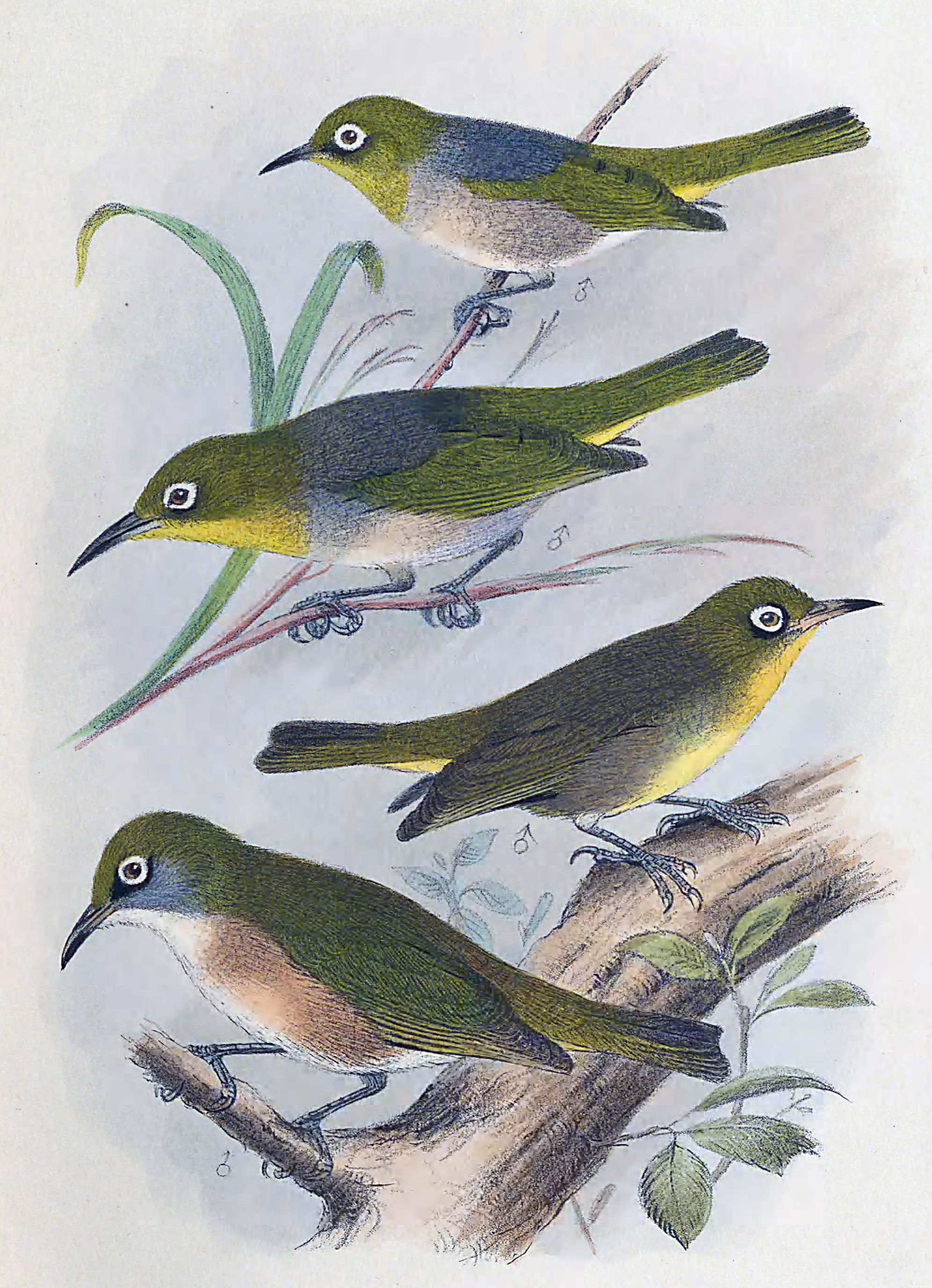 Zosterops tephropleura, Zosterops strenua, Neozosterops tenuirostris, Neozosterops albogularis. From The Birds of Australia (1910-28) by Gregory Macalister Mathews (1876-1949. Artwork by Henrik Gronvold (1858–1940) a Danish bird illustrator.